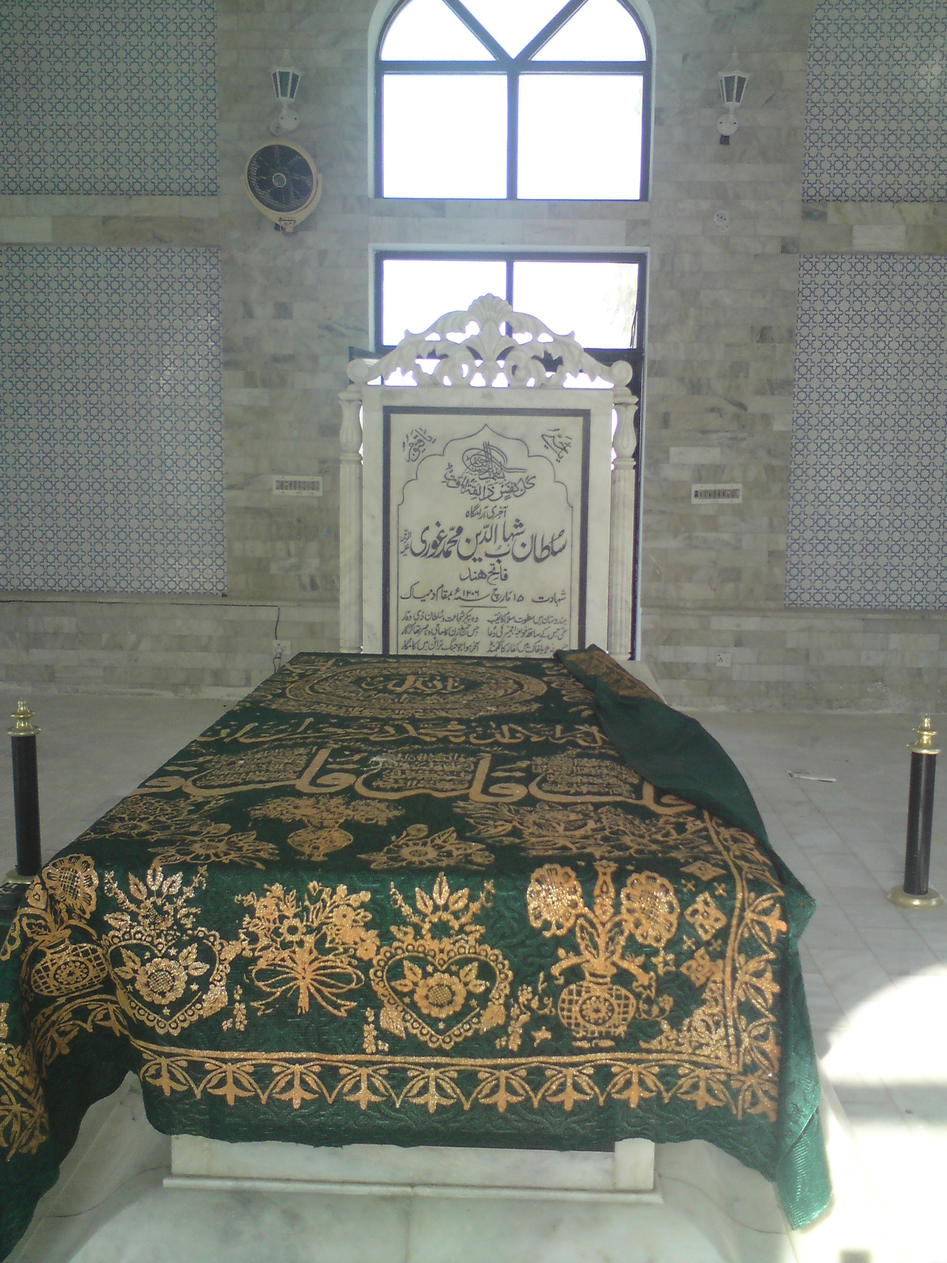 Tomb of Muhammad of Ghor.